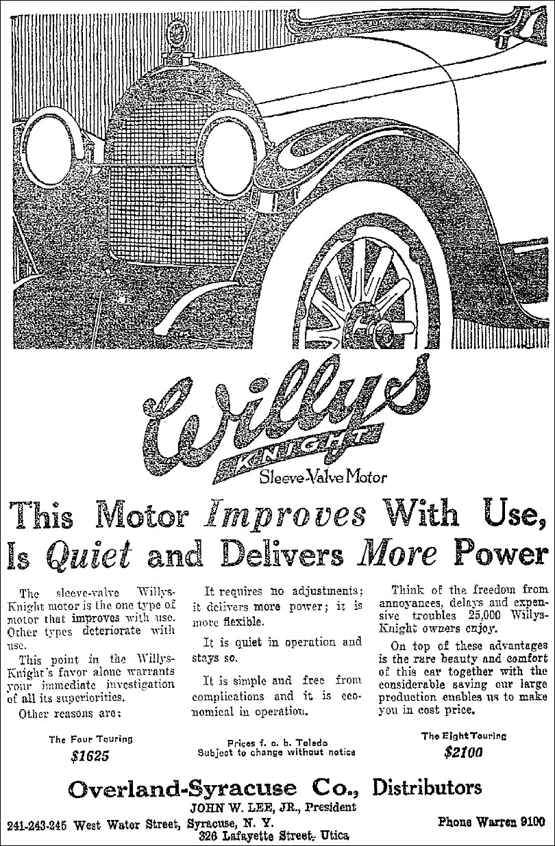 A 1918 Willy's Knight Advertisement